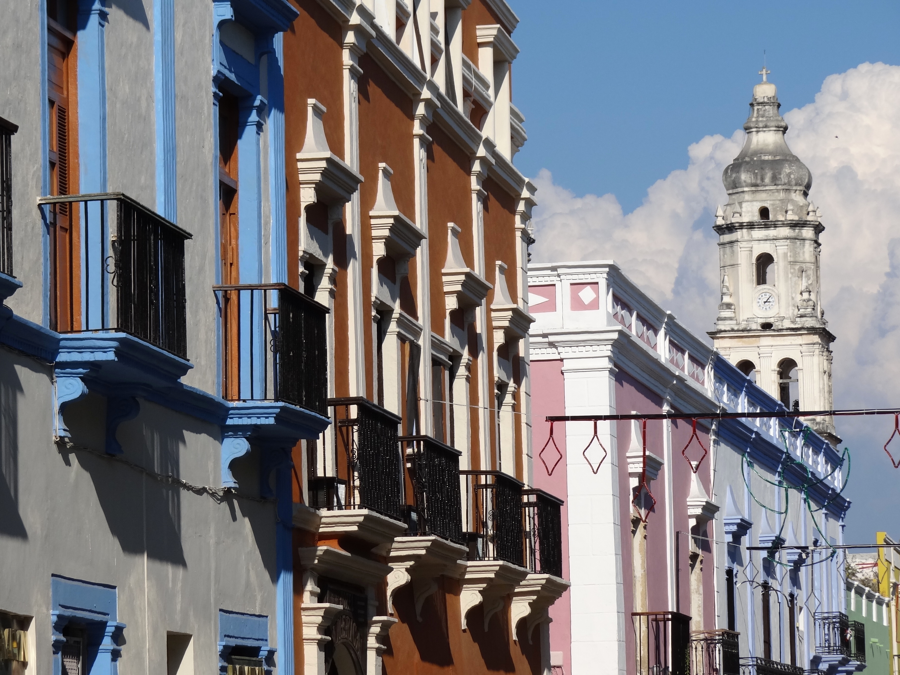 Facades in Old City with Cathedral at rear — Campeche state, southeastern Mexico. Houses in Historic Center of San Francisco de Campeche.